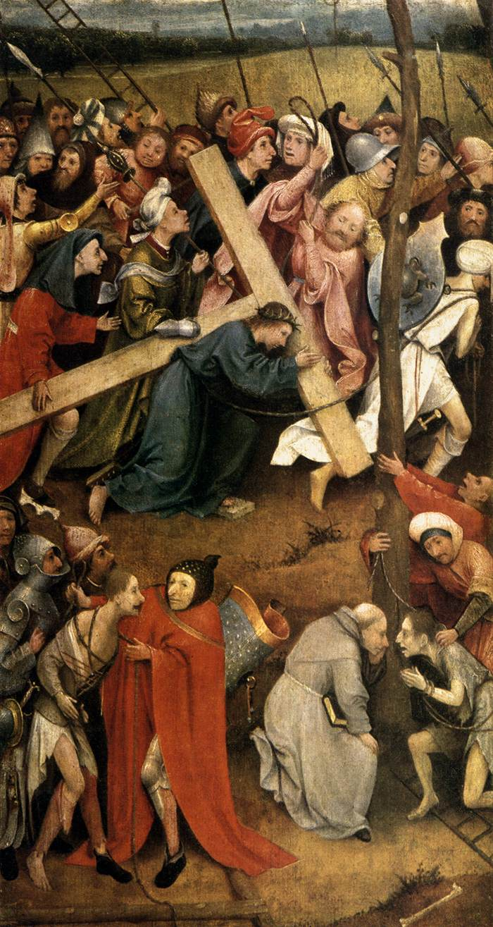 Inner left wing of a tryptych. See File:Hieronymus Bosch 101.jpg for the outer left wing.